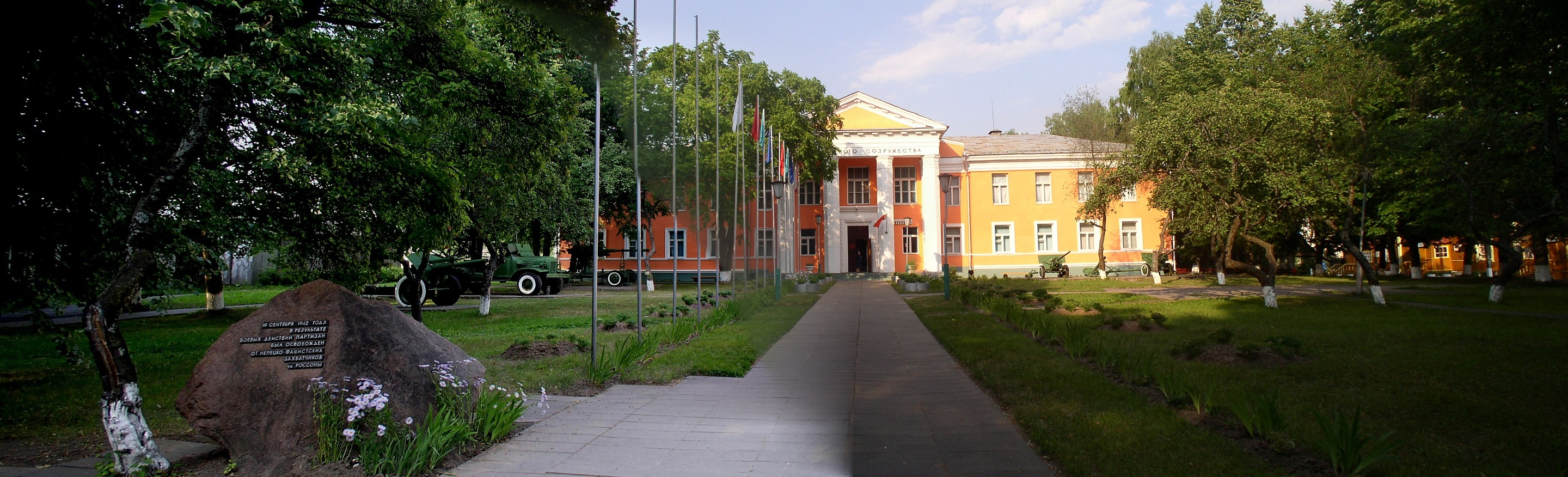 Museum of battle cooperation. Rasony, Belarus.